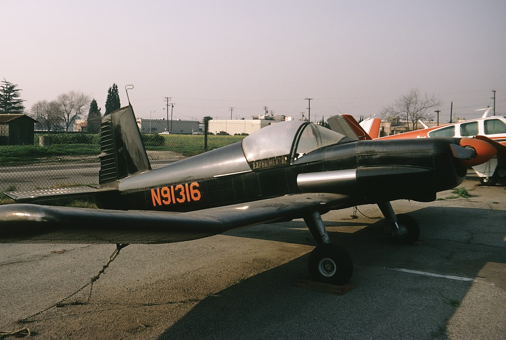 Fletcher FD-25 Defender N91316 at Fullerton airfield California